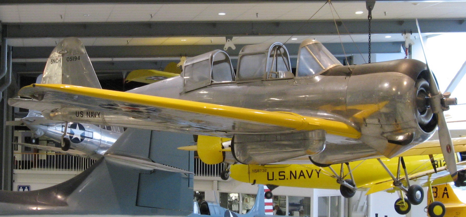 Curtiss SNC-1 Falcon training aircraft on display at the National Museum of Naval Aviation in Pensacola, Florida.